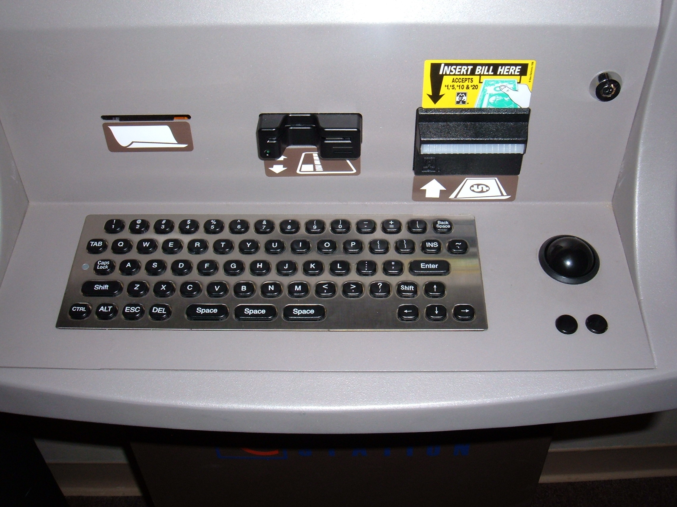 Keyboard of an iConnect Station Internet pay kiosk located in a hospital in Daly City, California.